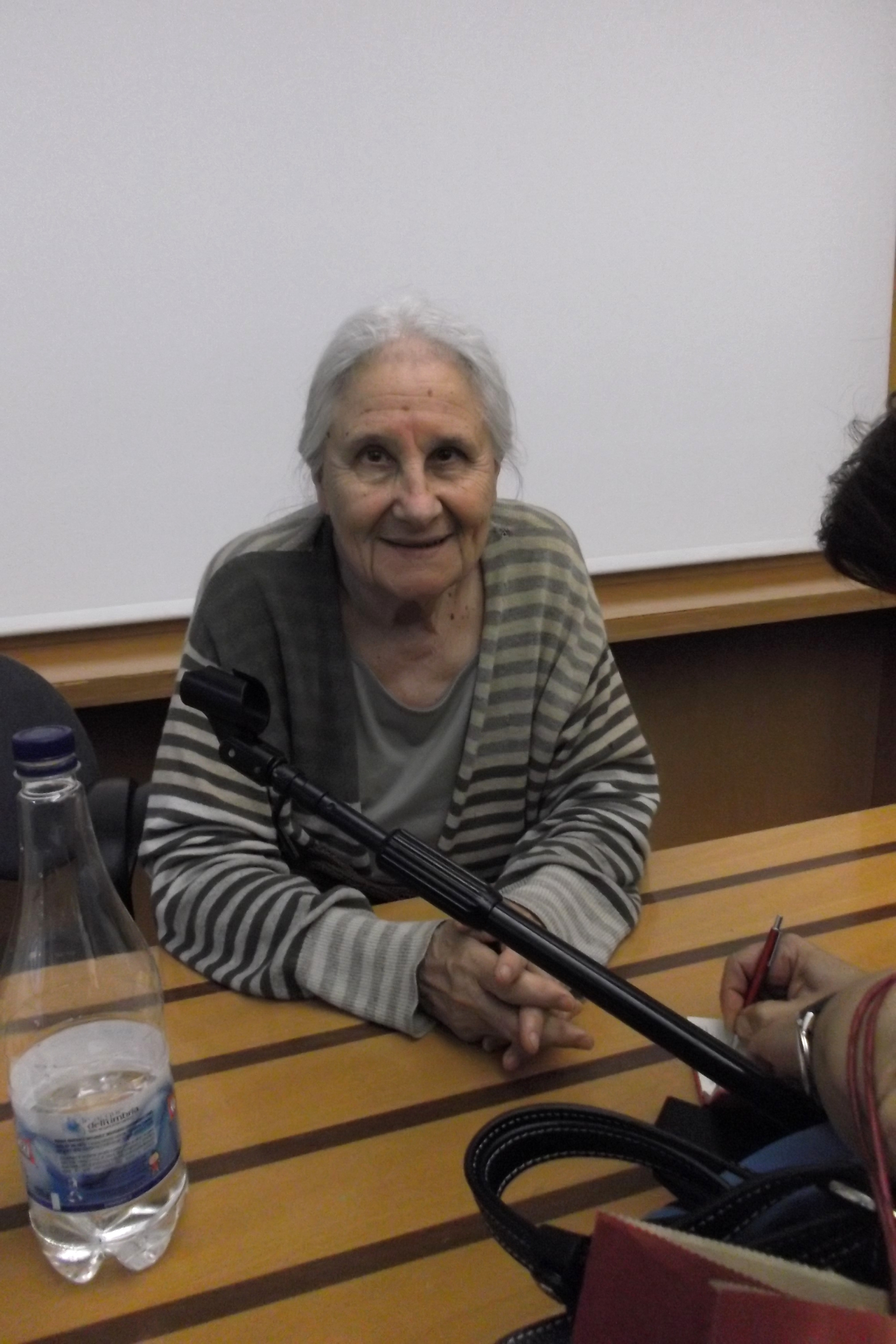 Italian sociologist, activist and former minister Laura Balbo at International Women's House, Rome